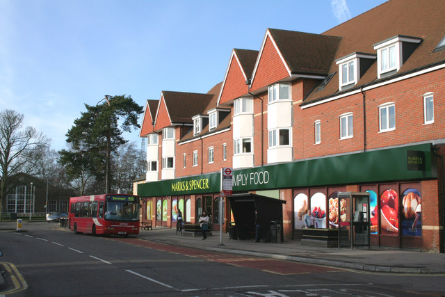 Marks and Spencer, High Street, Banstead, Surrey. A quality supermarket very suitable for this popular and well-heeled suburb. The bus is Arriva London DWS7 (LJ53 NFU), a DAF SB120/Wright Cadet, having a break before heading for West Croydon via Coulsdon on route 166. Banstead is the western terminus of this route on Sundays, but on weekdays a third of buses run through to Epsom Hospital via Epsom (one bus every hour on this otherwise every 20 minute service).